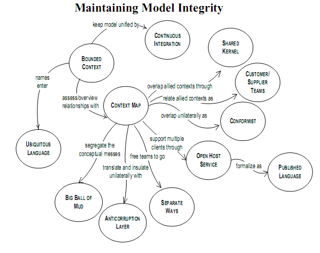 managing complexity graphic showing DDD patterns to apply from Domain Driven Design